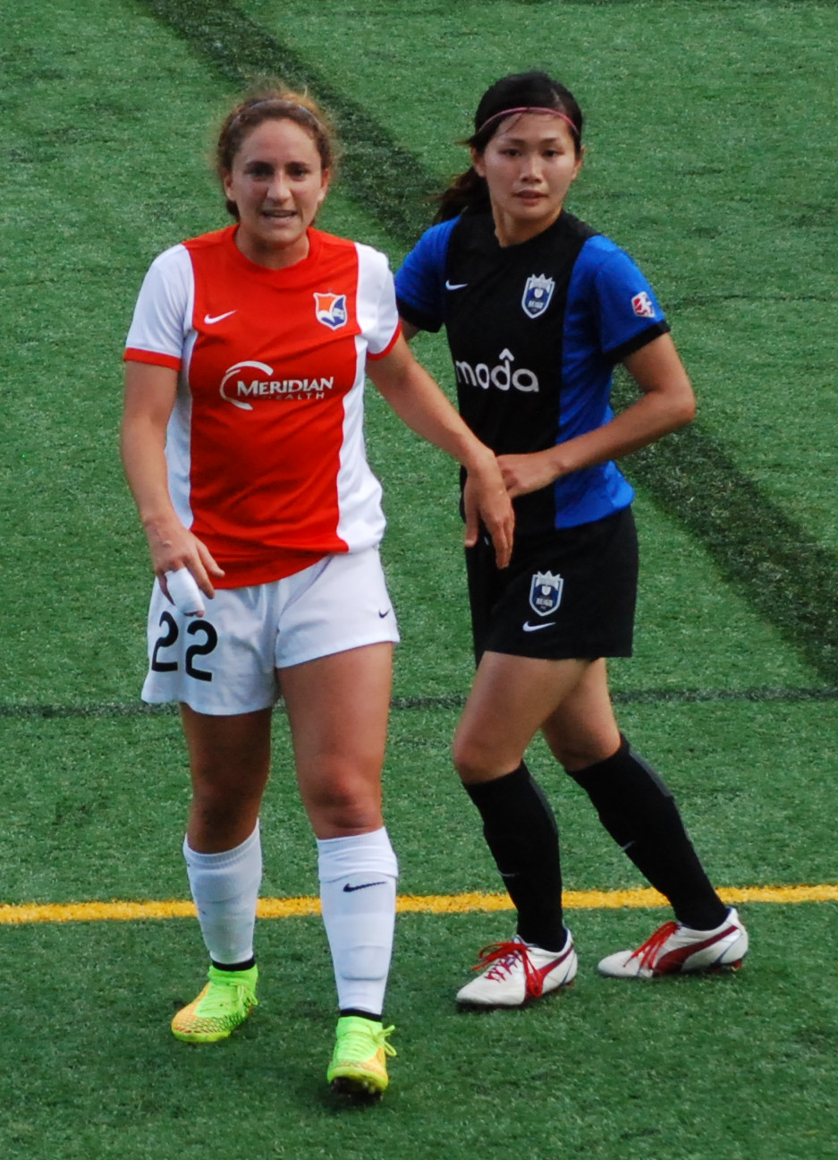 Seattle Reign FC vs Sky Blue FC Memorial Stadium, Seattle Center Seattle, WA June 28, 2014